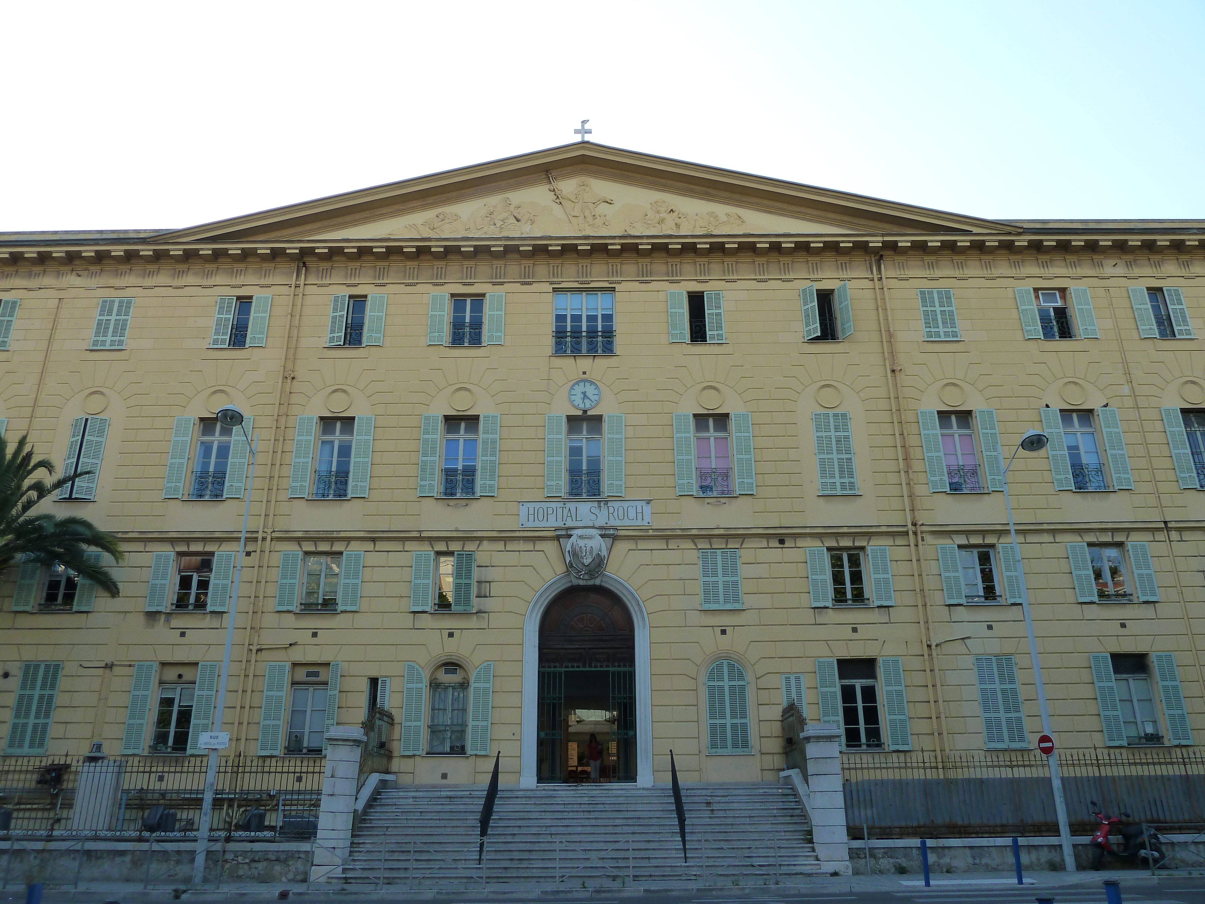 Saint-Roch hospital in Nice